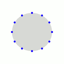 Image shows an initial configuration (a ring of test particles); the deformation of this configuration by a passing gravitational wave is shown in Image:Gravwav.gif.